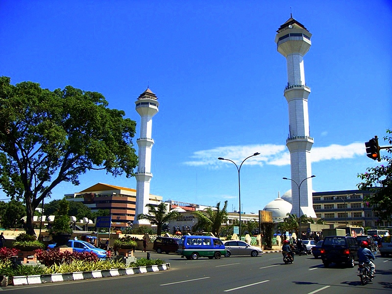 The Grand Mosque of Bandung with its twin minarets, adjacent to the City Square (Alun-Alun) in Asia-Afrika Street.